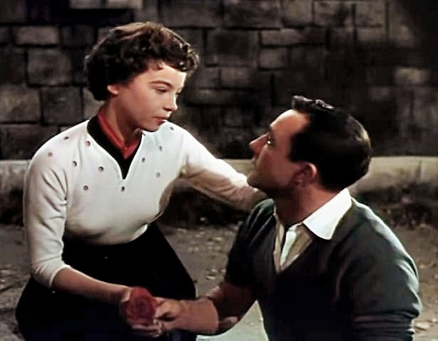 Leslie Caron & Gene Kelly in An American in Paris - trailer (cropped screenshot)